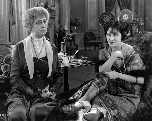 Helen Dunbar (left) and Gloria Swanson in The Great Moment (1921) - publicity still